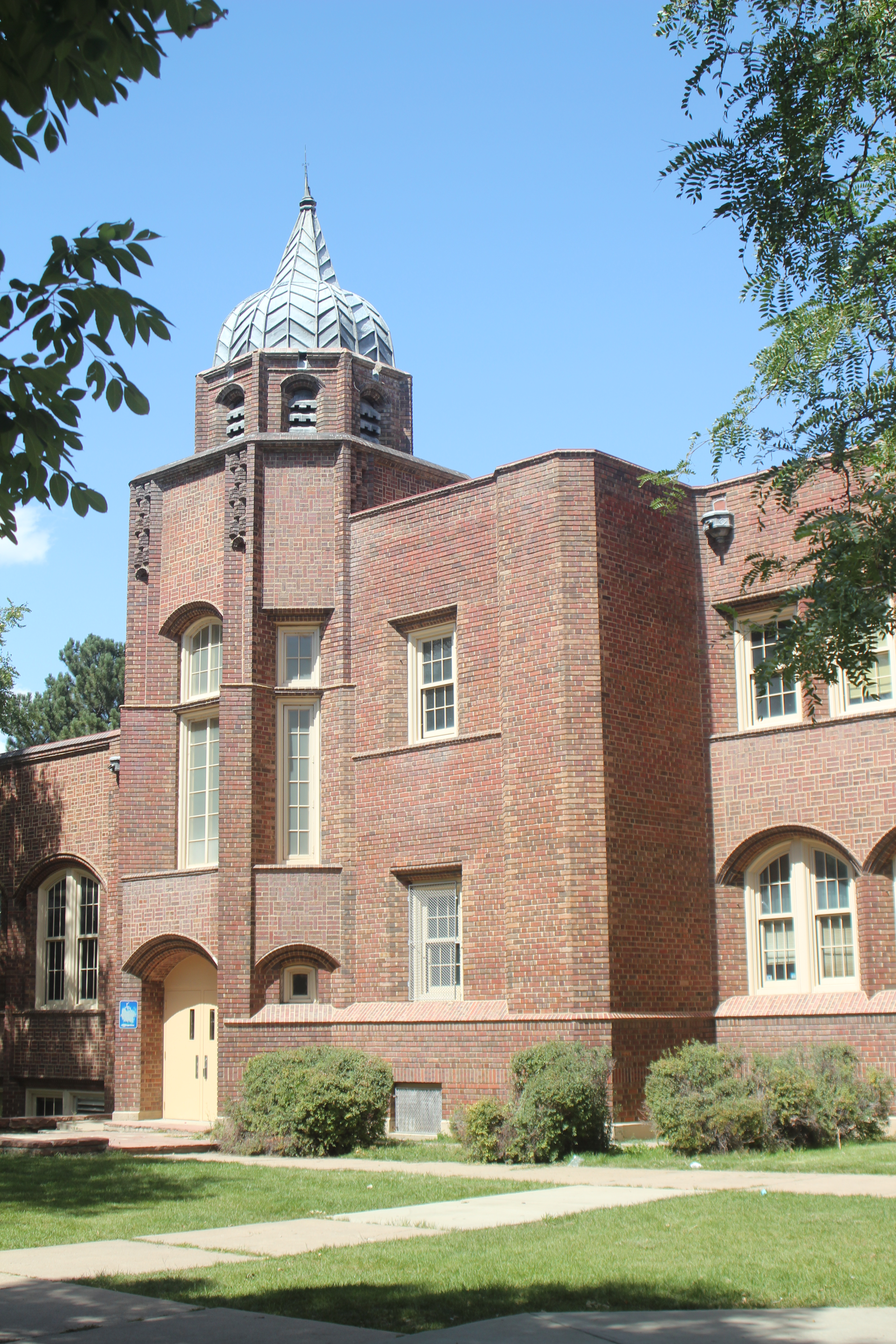 Photo of Lake Junior High School in Denver, Colorado. It was built in 1926 and designed by architects Merrill H. and Burnham F. Hoyt.